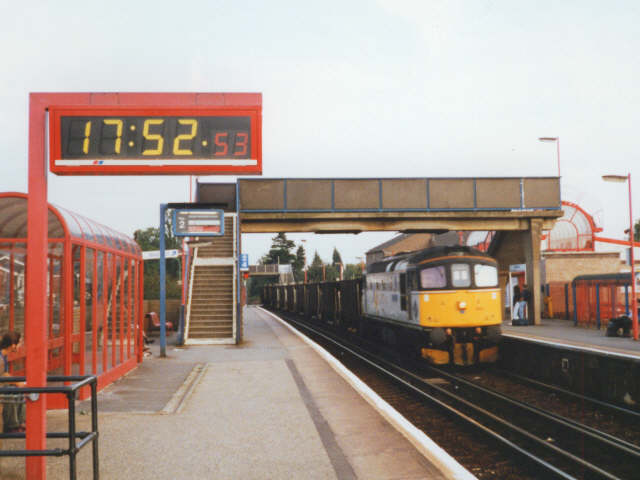 Rainham Station. An analogue clock gives the precise time of the passing of this freight train at Rainham station.